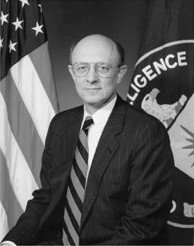 R. James Woolsey, 16th Director of Central Intelligence